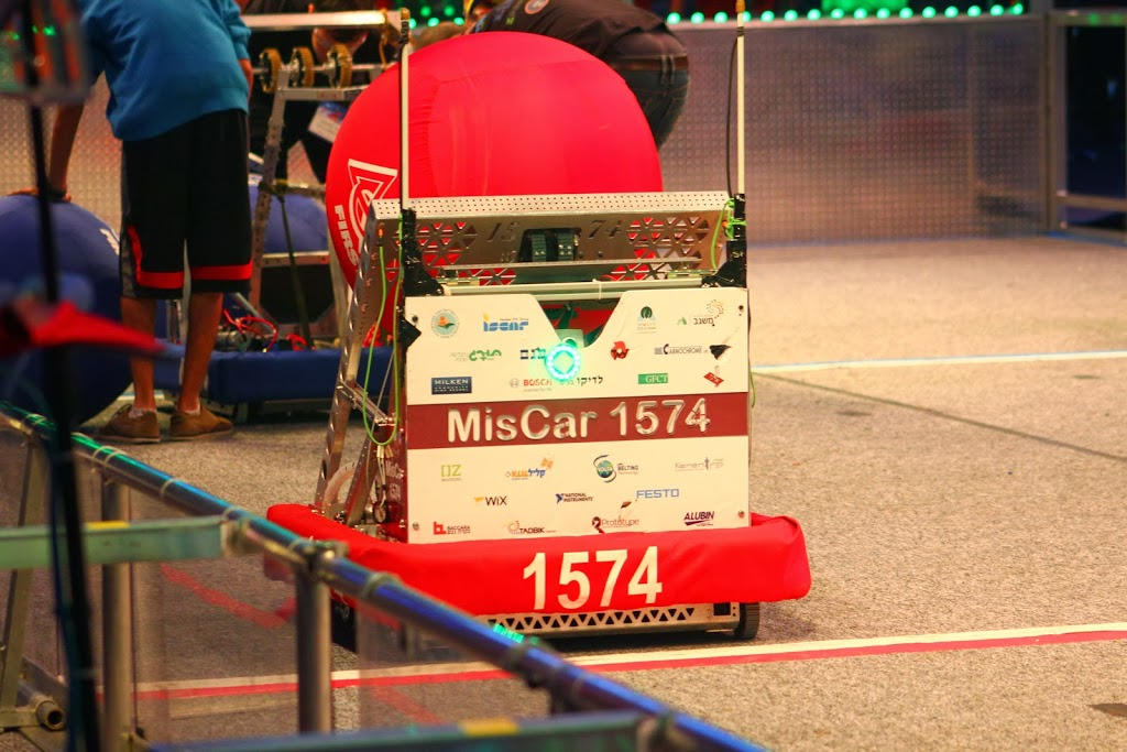 MisCar 1574's robot for the 2014 FIRST Robotics Competition "Aerial Assist" challenge.